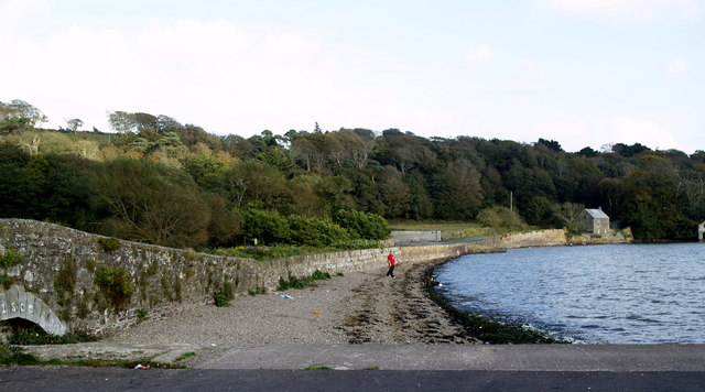 The Seafront at Cuskinny